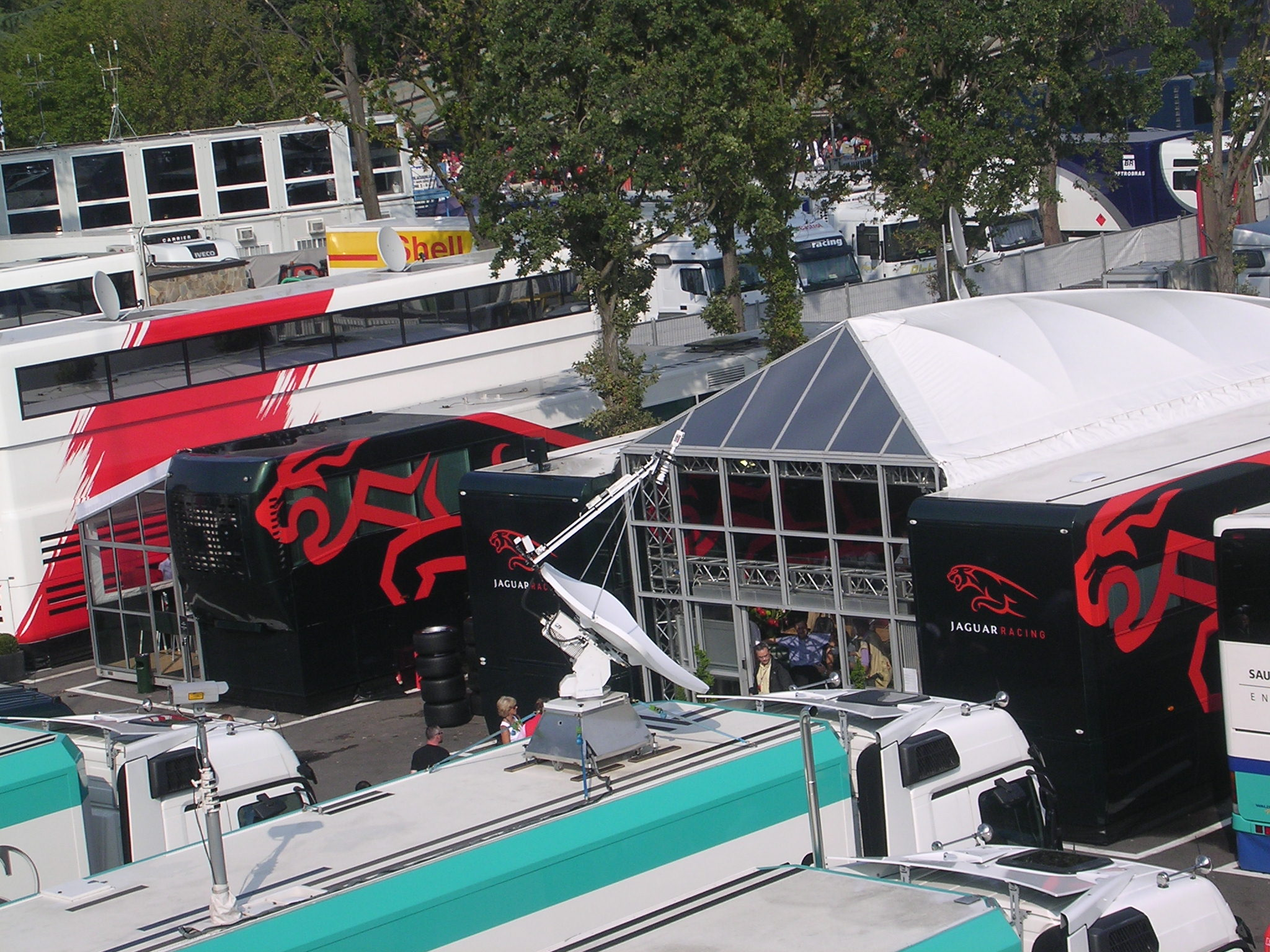 The Autrodomo Nazionale of Monza (Italy) during a race in september 2004.